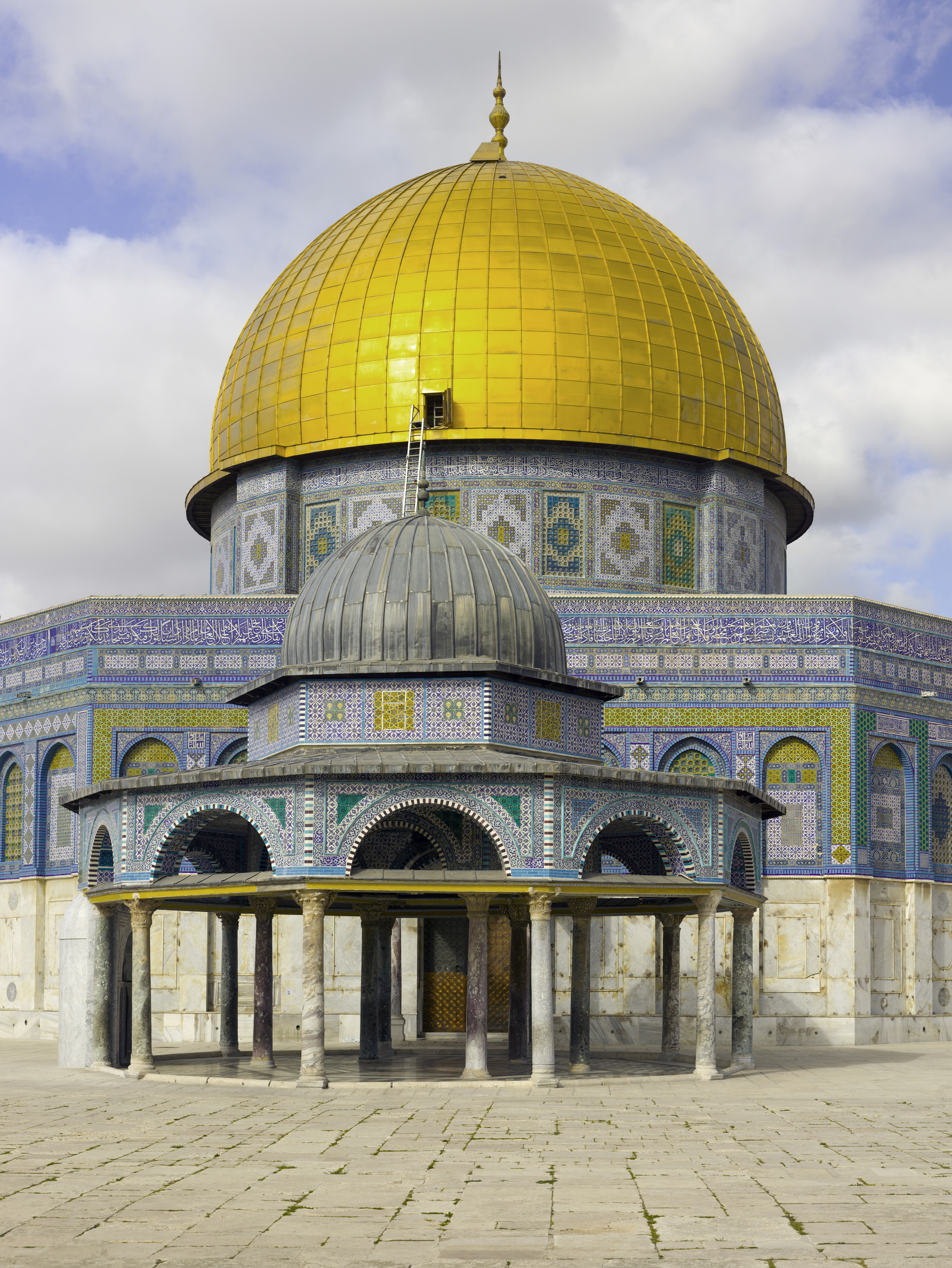 Eastern façade of The Dome of the Rock (Arabic: مسجد قبة الصخرة, Hebrew: כיפת הסלע), behind the Dome of the Chain (Arabic: قبة السلسلة) on the Temple Mount in the Old City of Jerusalem.